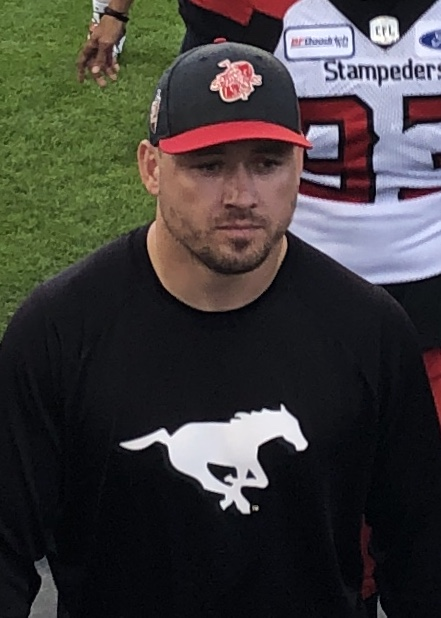 J. C. Sherritt, 2019 linebackers coach for the Calgary Stampeders.